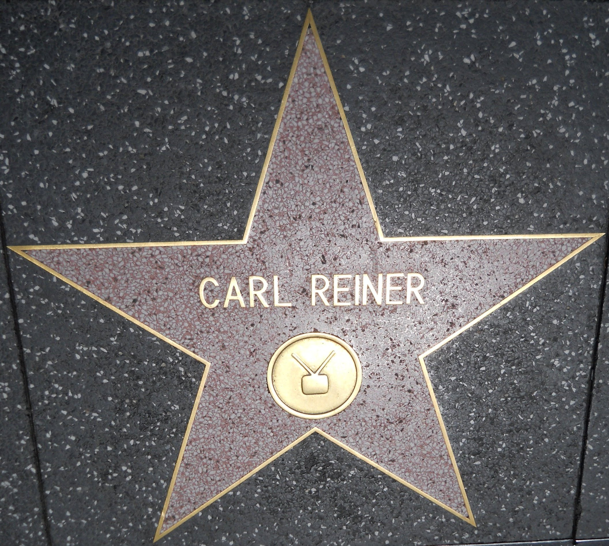 Carl Reiner's star on the Hollywood Walk of Fame, 6400 block of Hollywood Blvd, north side, Between Cahuenga And Wilcox.